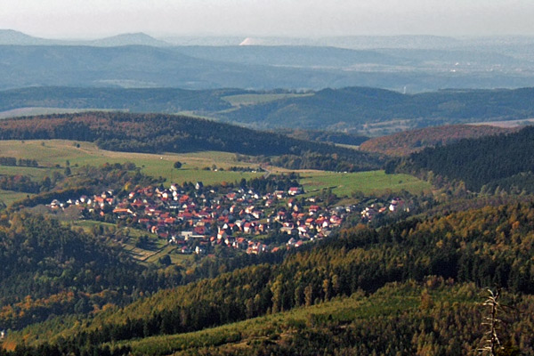 View to Rotterode in the Thuringian Forest, Germany